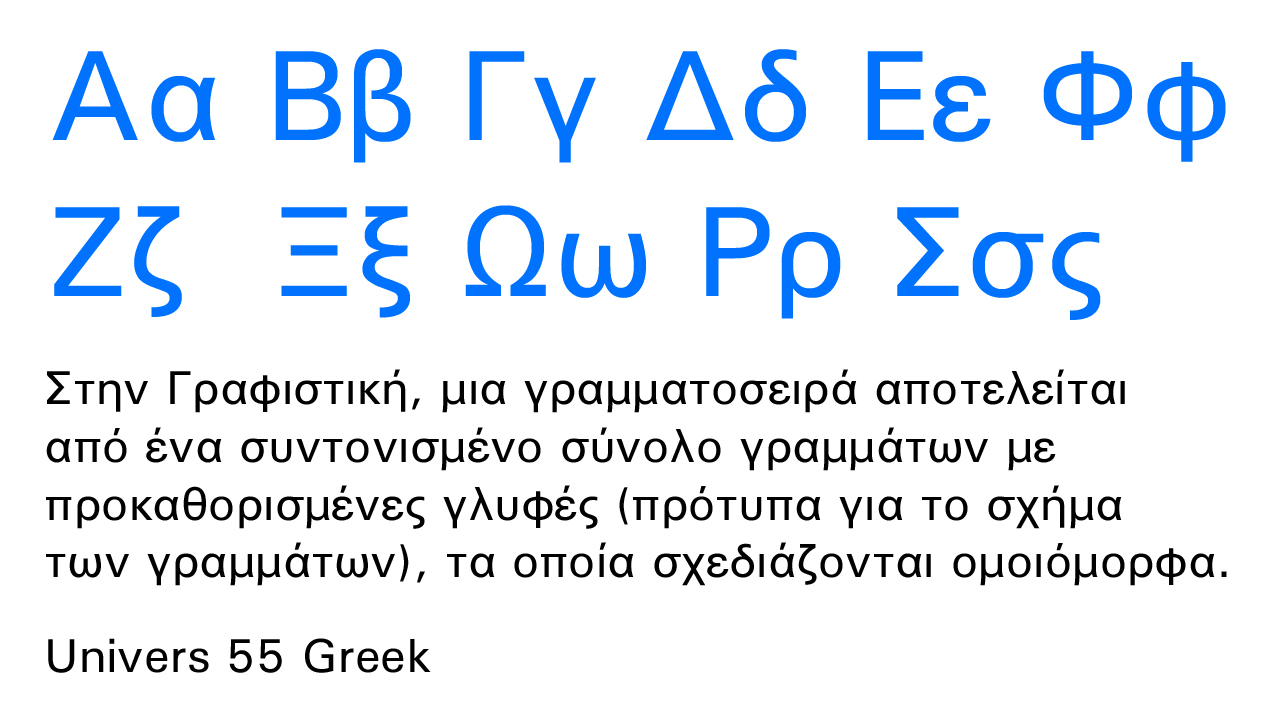 Typeface Univers 55 (Greek) designed by Adrian Frutiger. Picture made with Photoshop by Christos Vittoratos.